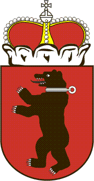 Historic coat of arms of Samogitia. Drawing created by Theodore Kloba.